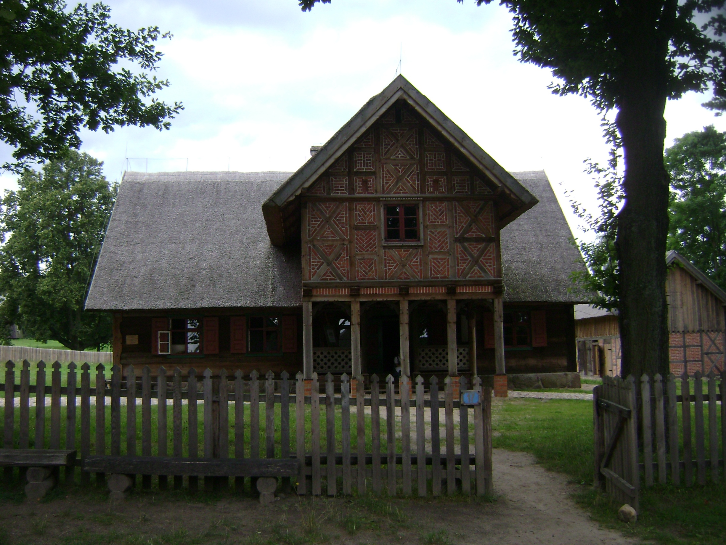 Ethnographic Park in Olsztynek - 17a. A mid 19th century hut with an arcade extension from Chojnik near Ostróda, original